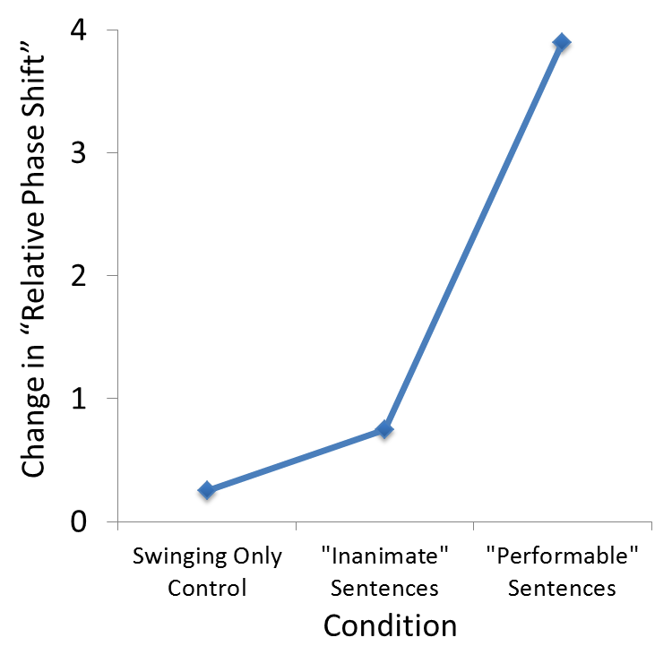 Graph depicts change in "relative phase shift" for the conditions in Olmstead et al.'s (2009) experiment.